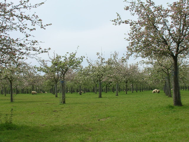 Cider apple orchards at Over Stratton. Somerset is still famous for its cider, although there are not as many apple orchards now.